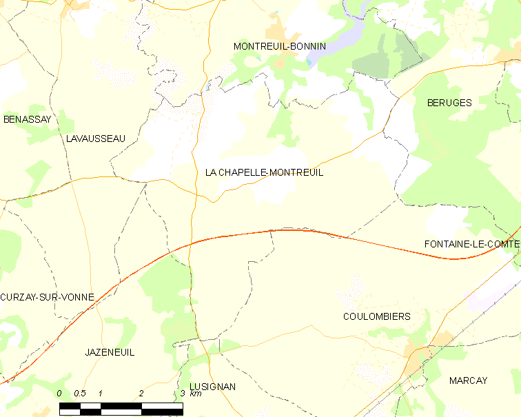 Map of French municipality La Chapelle-Montreuil